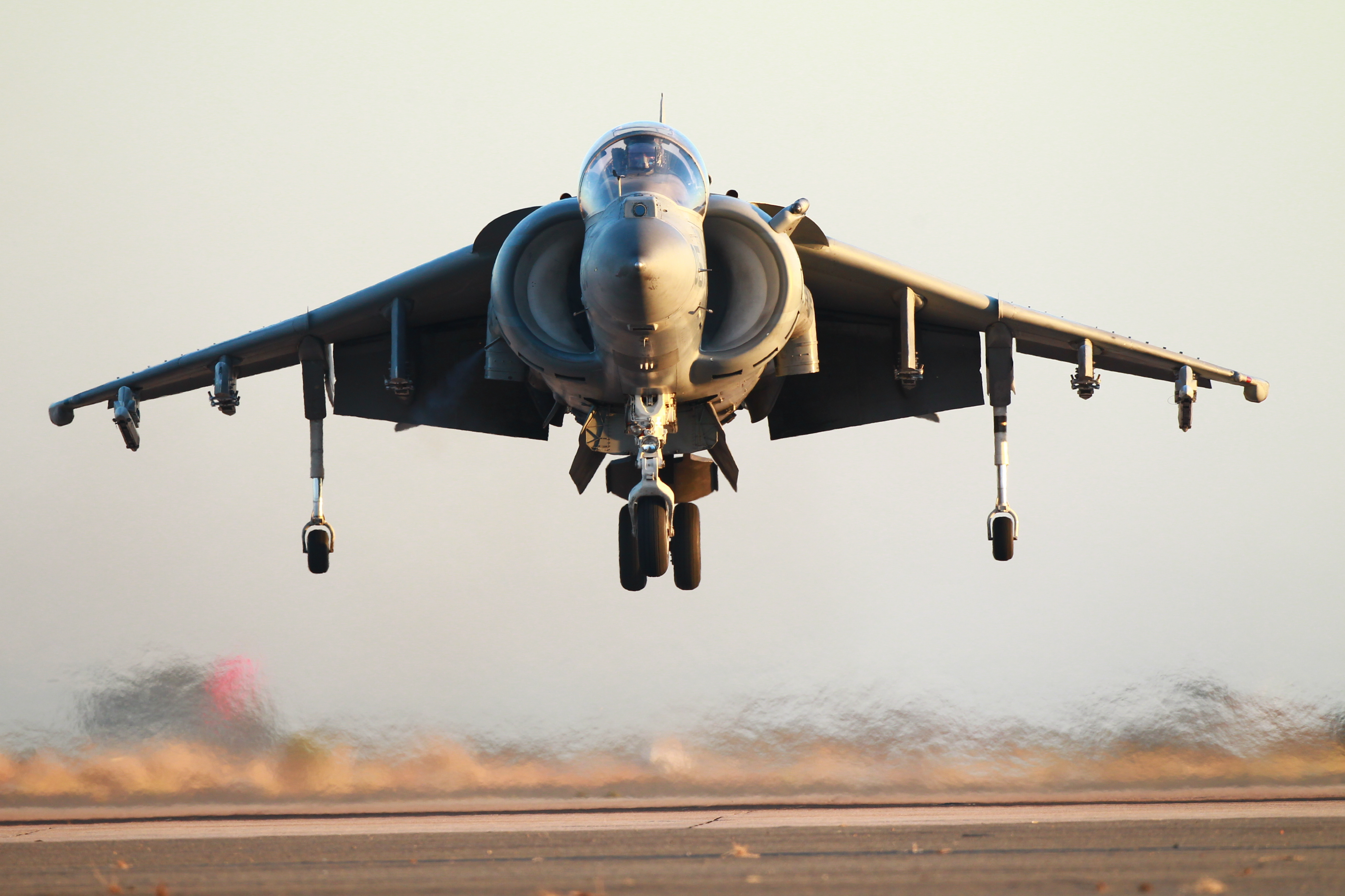 An AV-8B Harrier hovers over the flight line during the Marine Corps Community Services (MCCS) sponsored annual Air Show on Marine Corps Air Station (MCAS) Miramar, San Diego, Calif., Oct. 13, 2012. The MCAS Miramar Air Show showcases not only the aerial prowess of the Armed Forces but their appreciation of the community's support and dedication to the troops. (U.S. Marine Corps photo by Cpl. Jamean Berry/Released)